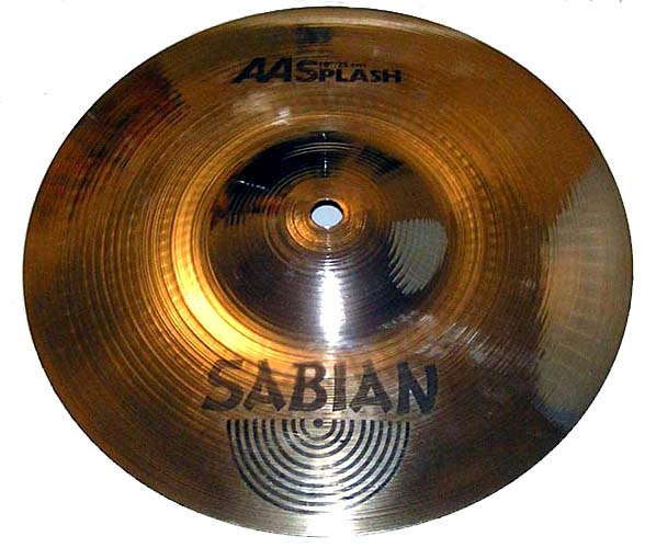 Sabian AA 10 inch Splash